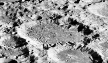 Oblique view of Garavito crater, on the far side of the moon, facing roughly south.